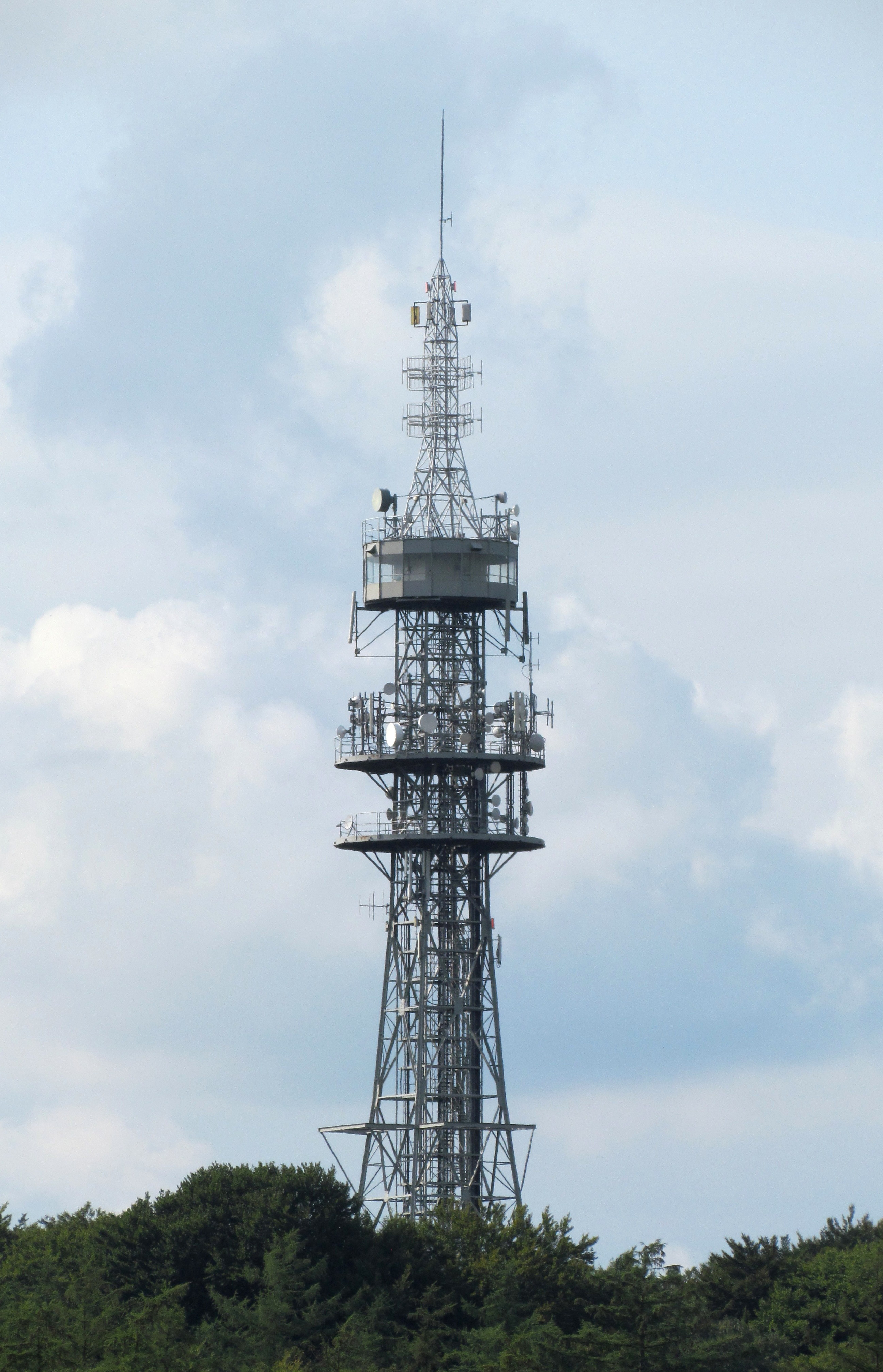 Communications tower in Ugchelen, NL (built 1959)